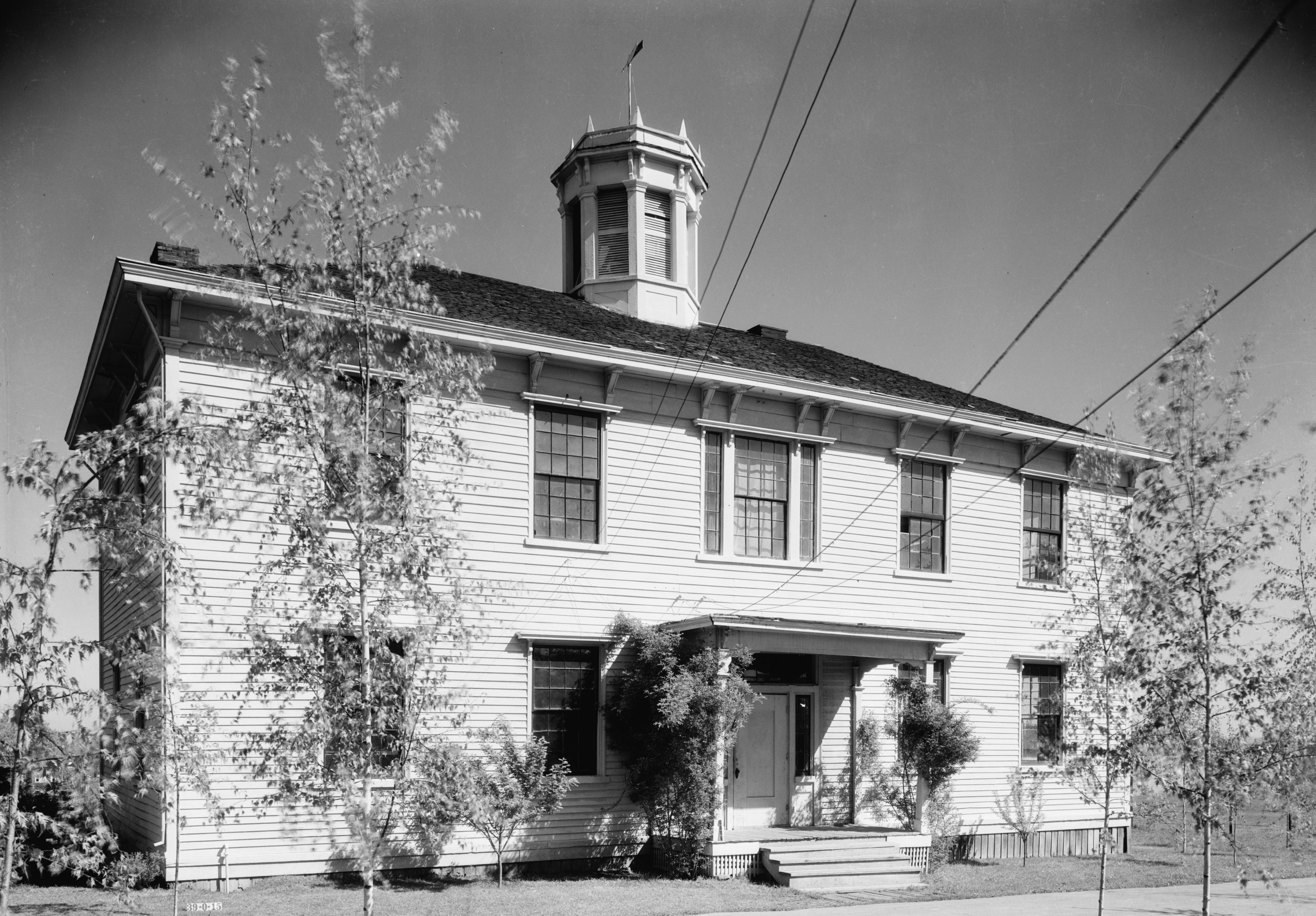 Historic American Buildings Survey, 1934. - Pacific University, Old College Hall, Forest Grove, Washington County, OR